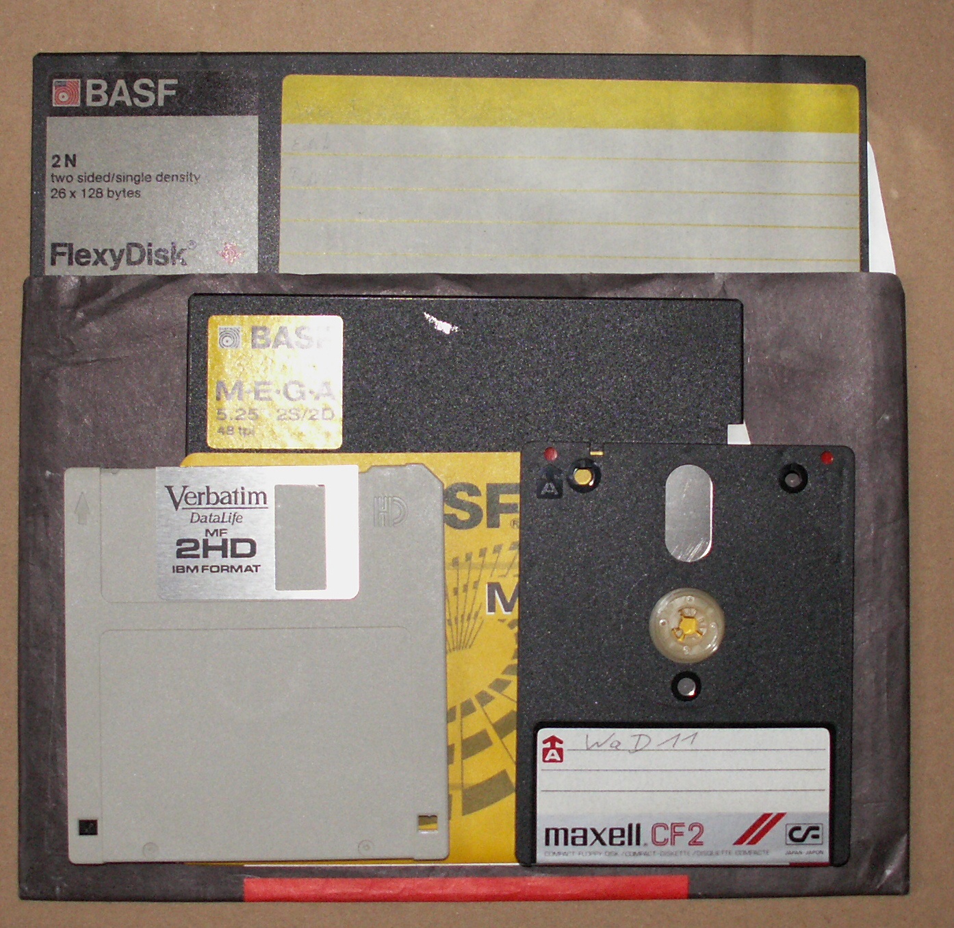 four floppy disks, 8-inch, ​5 1⁄4-inch, ​3 1⁄2-inch (bootom left) and 3 inch (bottom right)